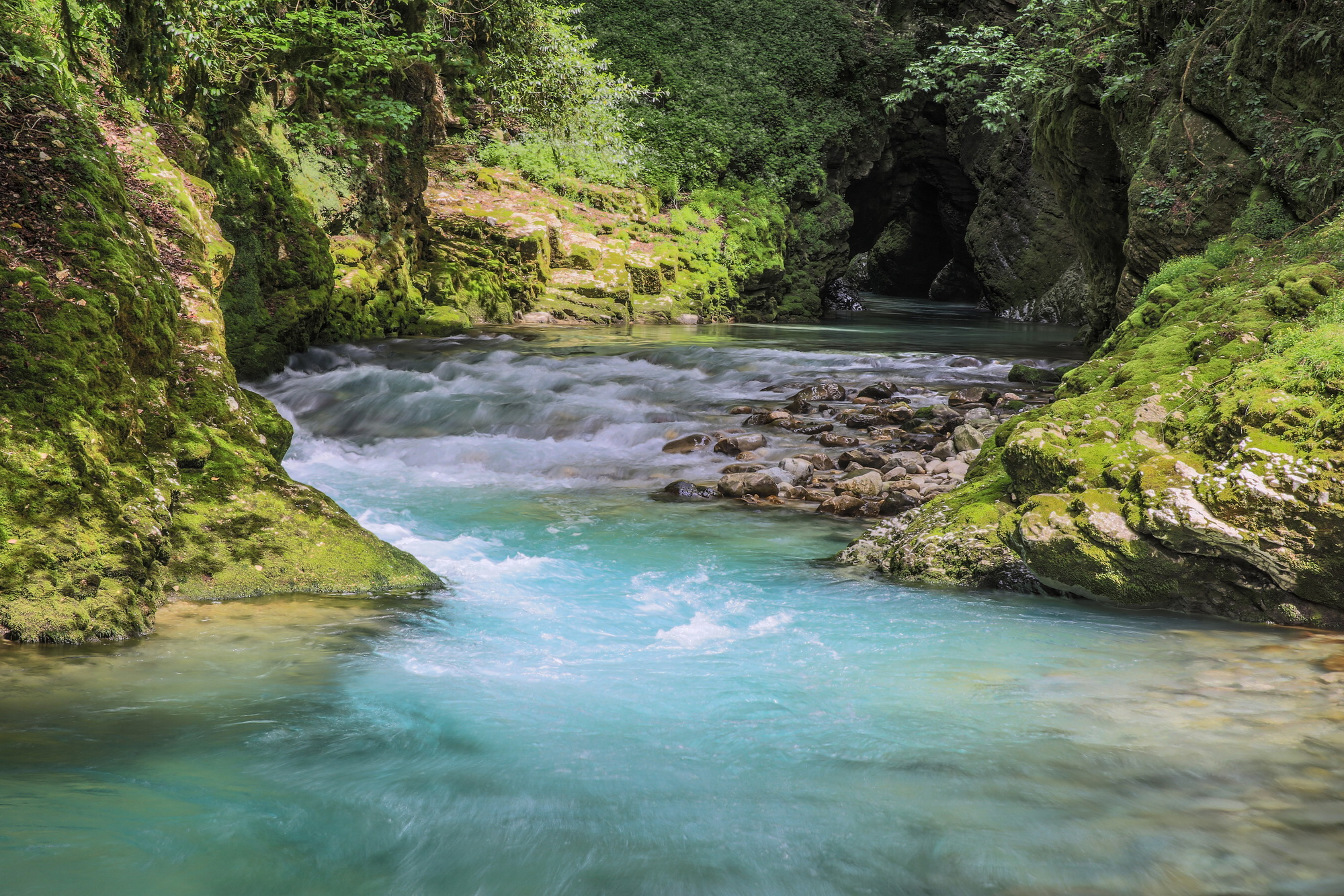 Balda Canyon Natural Monument Sightseen: Natural Monument is located at Southern part of river Abasha’s massive, at limestone rocks. The length of canyon is – 1400 meters, width – 5-10 meters, and depth – 25-30 meters. Location: Martvili municipality, village second Balda, Abasha valley, nearby Baldi Monastery, 295 above sea level. Coordinates: N42 29.319 E42 24.580 Access Road: Nearest big settlement near natural monument is Martivli, which is far from Tbilisi with 280 km. Duration – 4 hours. Distance from Martvili to Baldi canyon – 11,4 Km. Duration – 20 minutes.